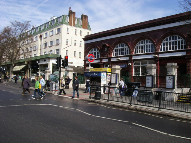 Belsize Park Underground Station Belsize Park Underground Station on Haverstock Hill